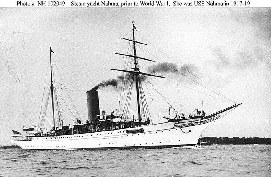 Photographed prior to her World War I Naval service. U.S. Navy photo NH 102049